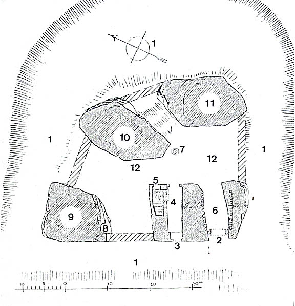 Cleaned up version of Burg_Rotenhan_Plan.jpg whose description is below. Appears to be photograph of sign at site by government. Original by Dark Avenger Burg Rotenhan bei Ebern (Landkreis Haßberge, Unterfranken. Plan auf der Infotafel vor der Burg (Nach der ungenauen Aufnahme im Kunstdenkmälerinventar von 1916). Eigene Aufnahme, März 2008 / Rotenhan castle near Ebern (Lower Franconia, Germany). Plan (Information board near the castle). Own photo, March 2008